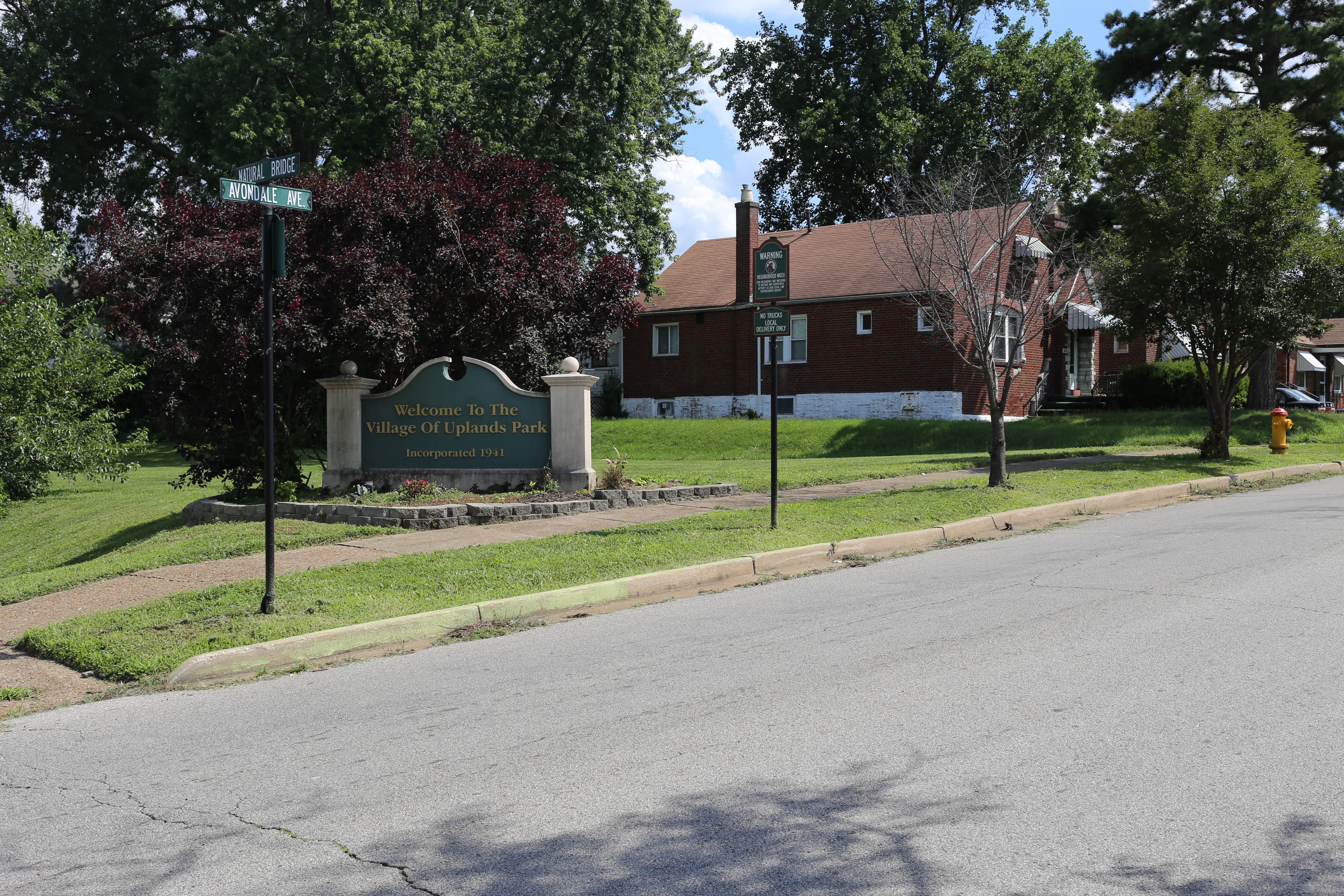 Incorporated 1941